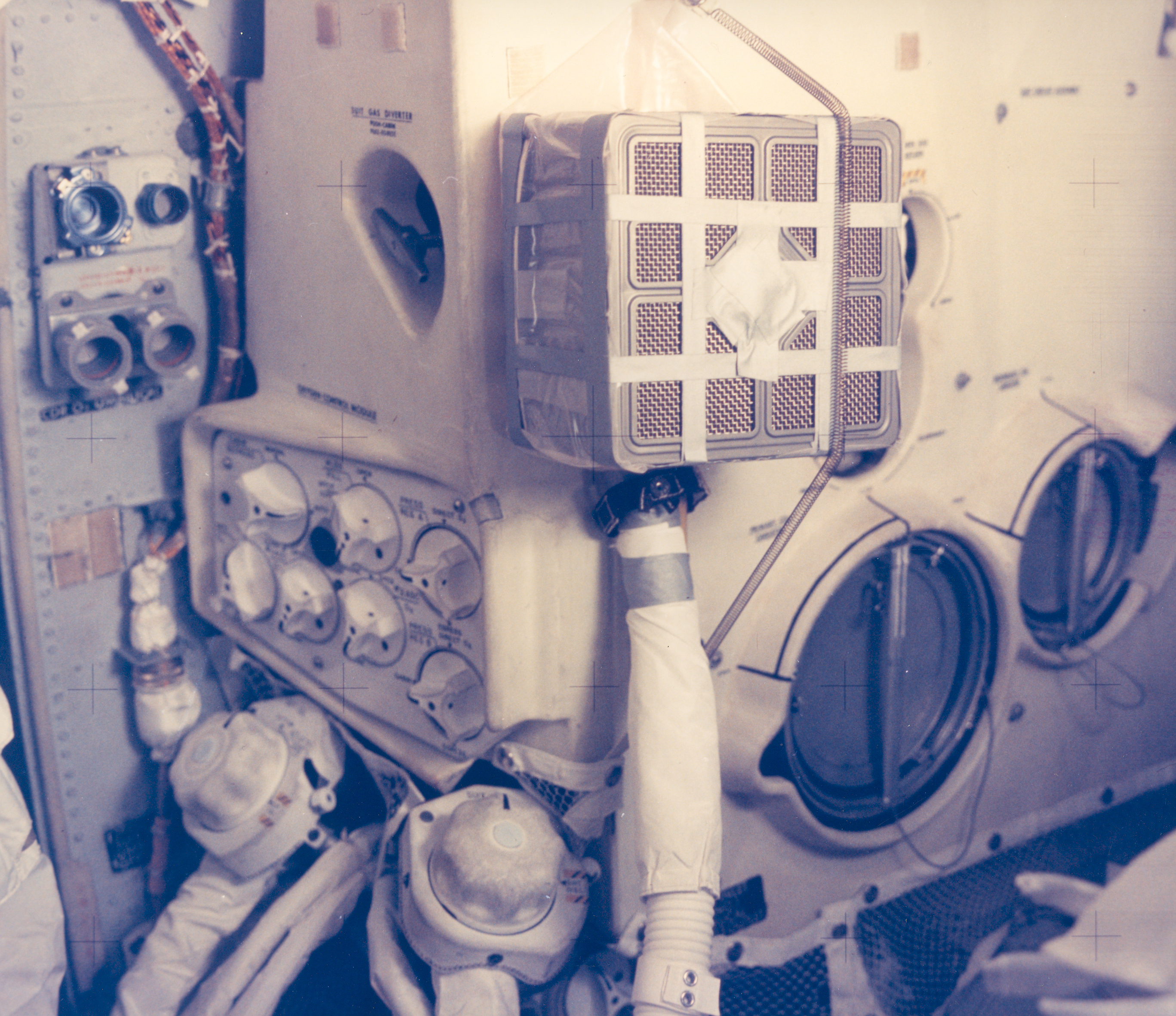 An interior view of the Apollo 13 Lunar Module and the "mailbox." The "mailbox" was a jury-rigged arrangement which the Apollo 13 astronauts built to use the Command Module lithium hydroxide canisters to purge carbon dioxide from the Lunar Module. Lithium hydroxide is used to scrub CO2 from the spacecraft atmosphere. Since there was a limited amount of lithium hydroxide in the Lunar Module, this arrangement was rigged up using the canisters from the Command Module. The "mailbox" was designed and tested on the ground at the Manned Spacecraft Center before it was suggested to the problem-plagued Apollo 13 crewmen. Because of the explosion of an oxygen tank in the Service Module, the three astronauts had to use the Lunar Module as a "lifeboat".